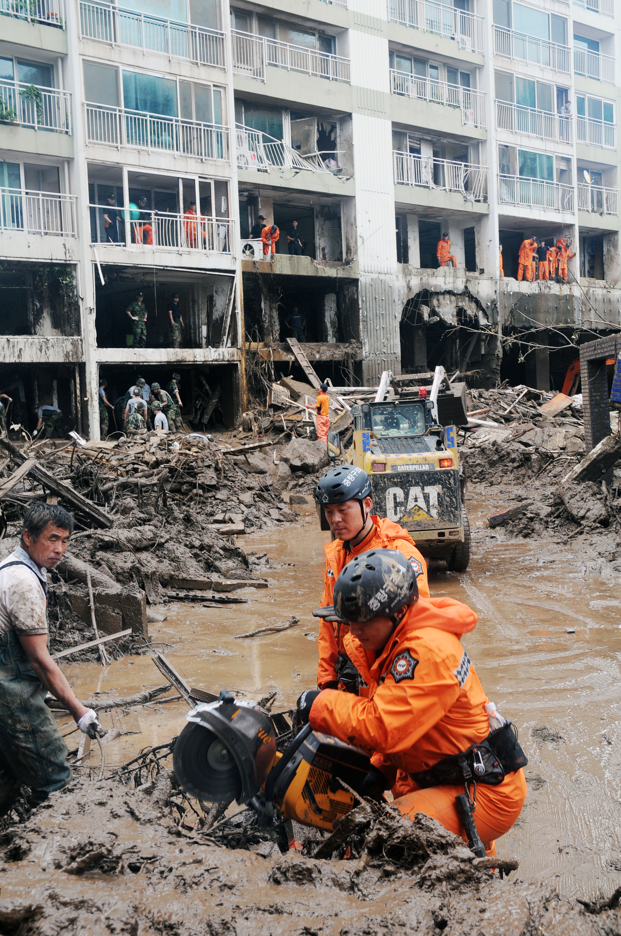 2011년 7월 우면산 산사태 서울소방 복구 활동